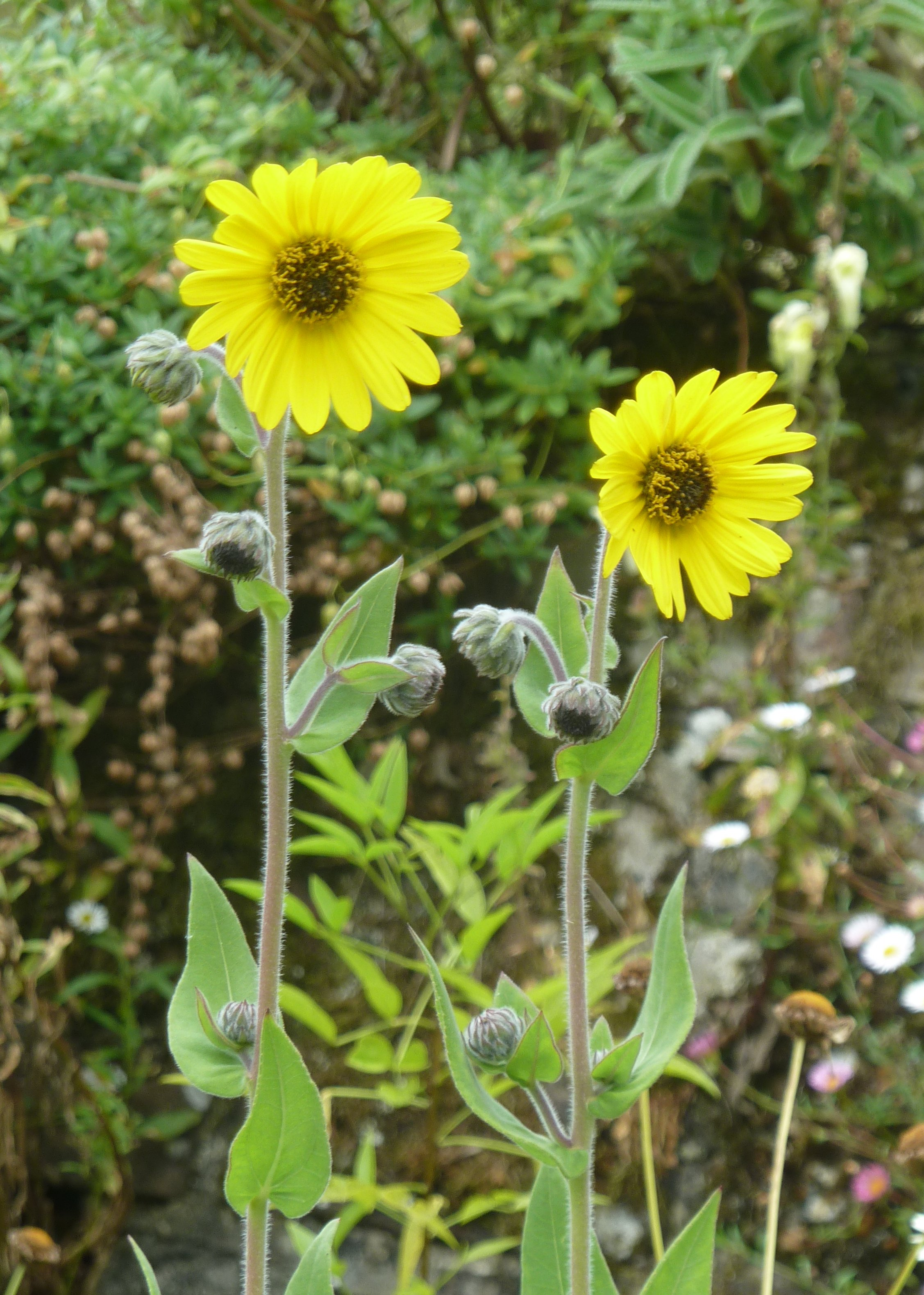 Helianthus mollis Raf. - ashy sunflower, downy sunflower, hairy sunflower